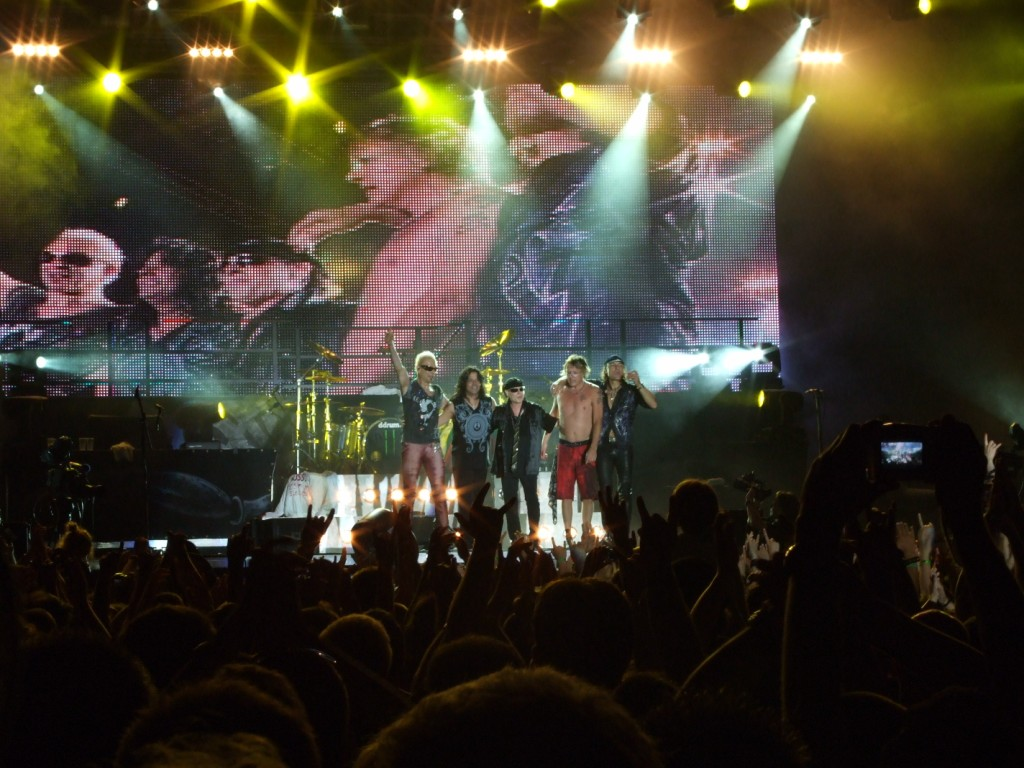 Scorpions at Kavarna Rock Fest - 2 July 2009 - Kavarna, Bulgaria. From left to right: Rudolf Schenker, Paweł Mąciwoda, Klaus Meine, James Kottak, Matthias Jabs.